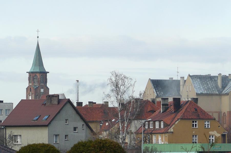 Panorama of Scinawa - Lower Silesia.